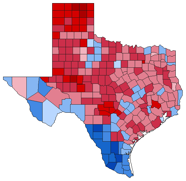 Color shaded map of the 1996 U.S. Senate election in Texas